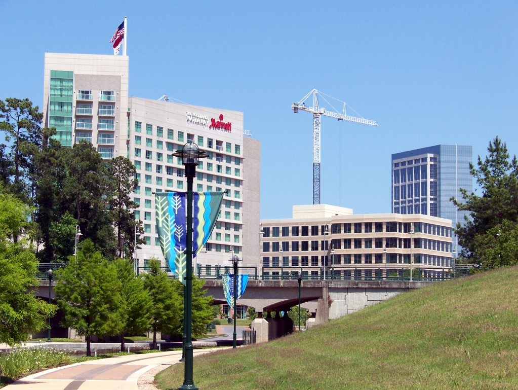 The Woodlands Waterway, The Woodlands, Texas.